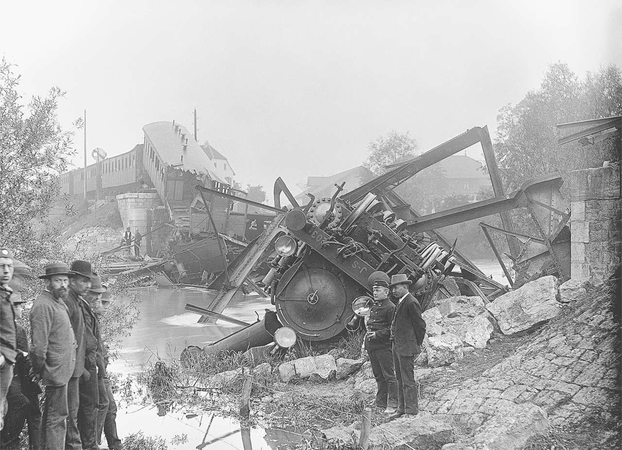 photography of the rail accident in Münchenstein, Switzerland. On June 14, 1891 a railway collapsed under a heavy train with more than 500 passengers. More than 70 persons were killed.